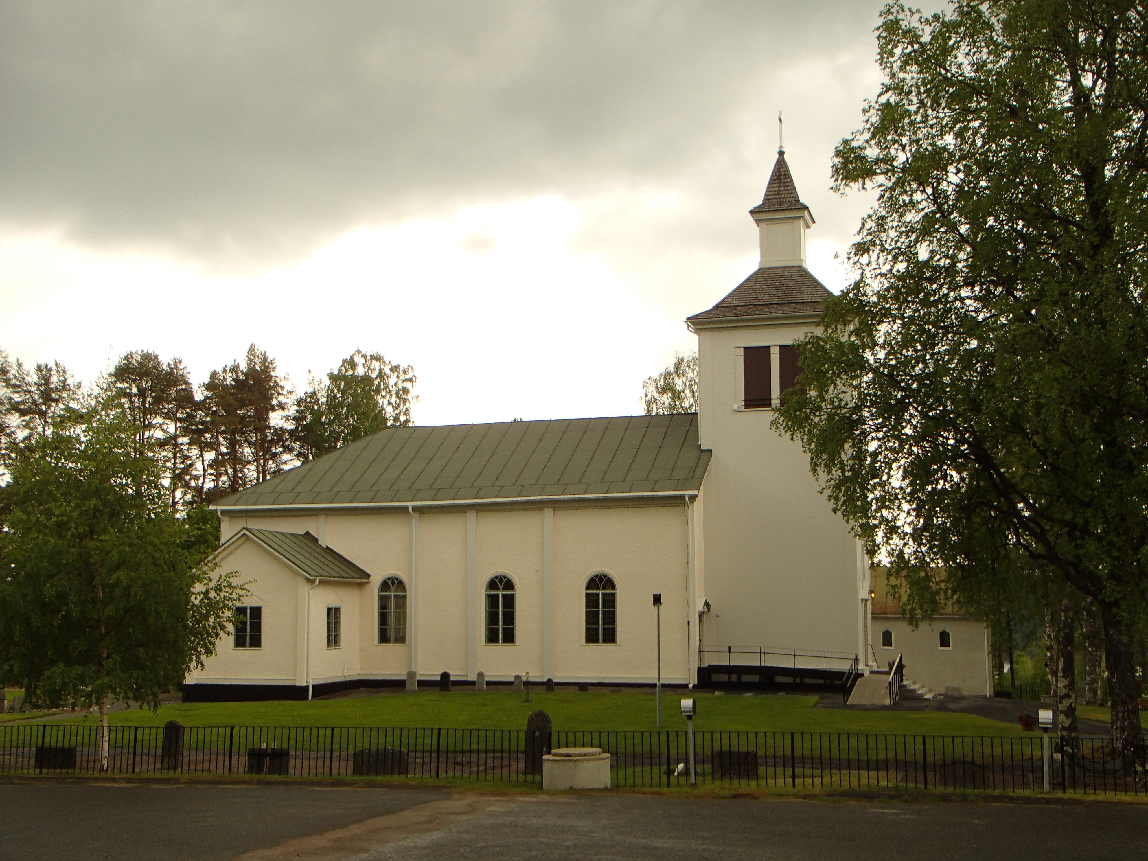 The church building of "Trehörningsjö kyrka" at Trehörningsjö in Örnsköldsvik Municipality